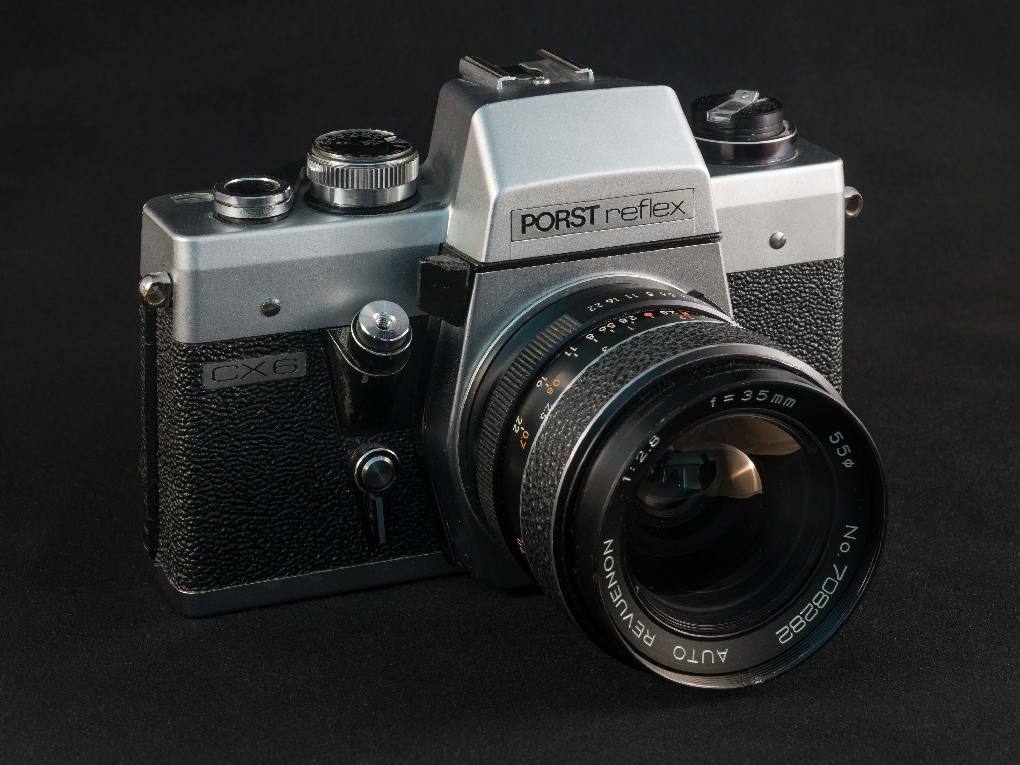 Porst Reflex CX6 (copy of Praktica LTL)